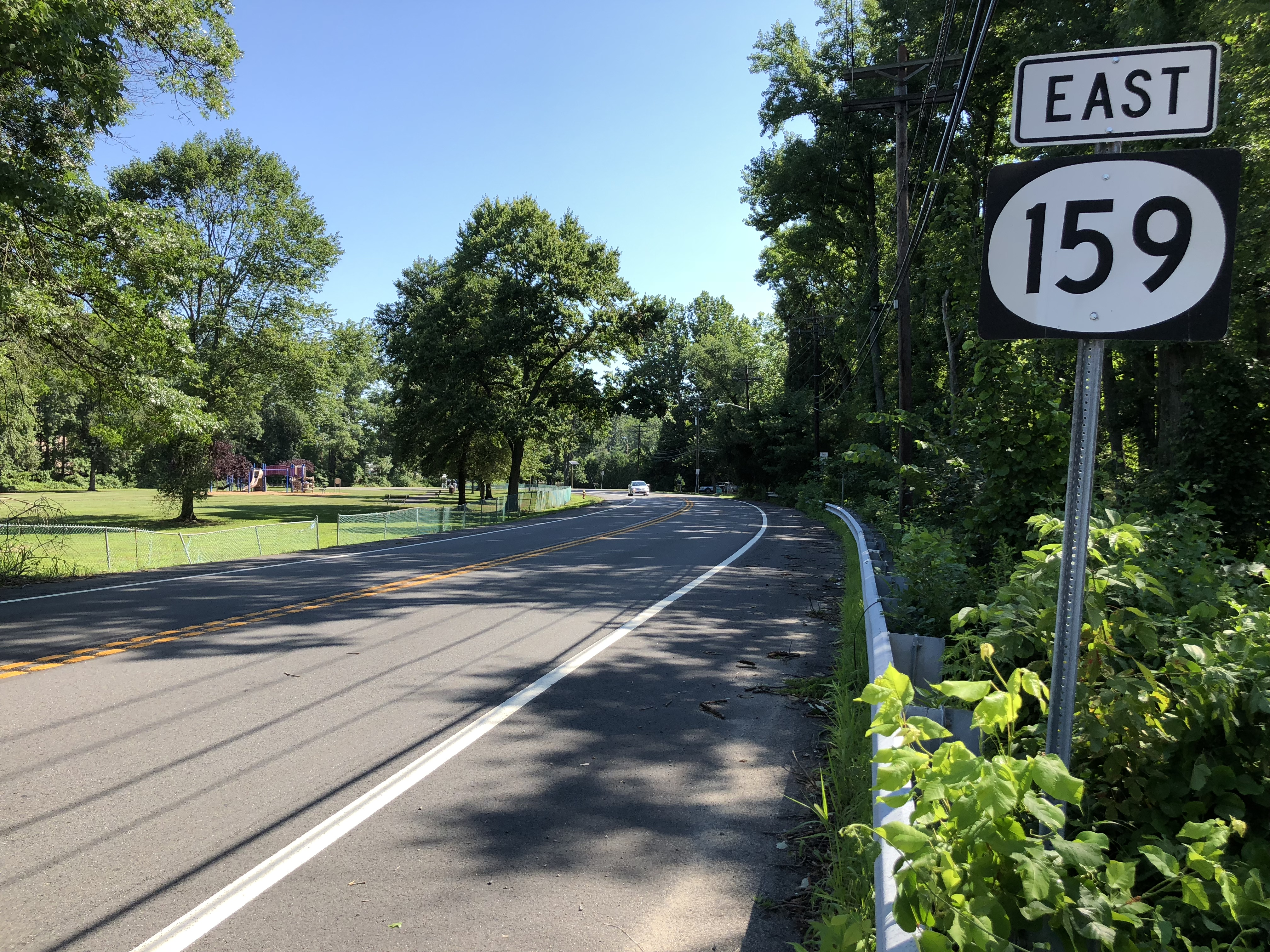 View east along New Jersey State Route 159 (Oak Road) at Essex County Route 614 Spur (Brook Street) in Fairfield Township, Essex County, New Jersey